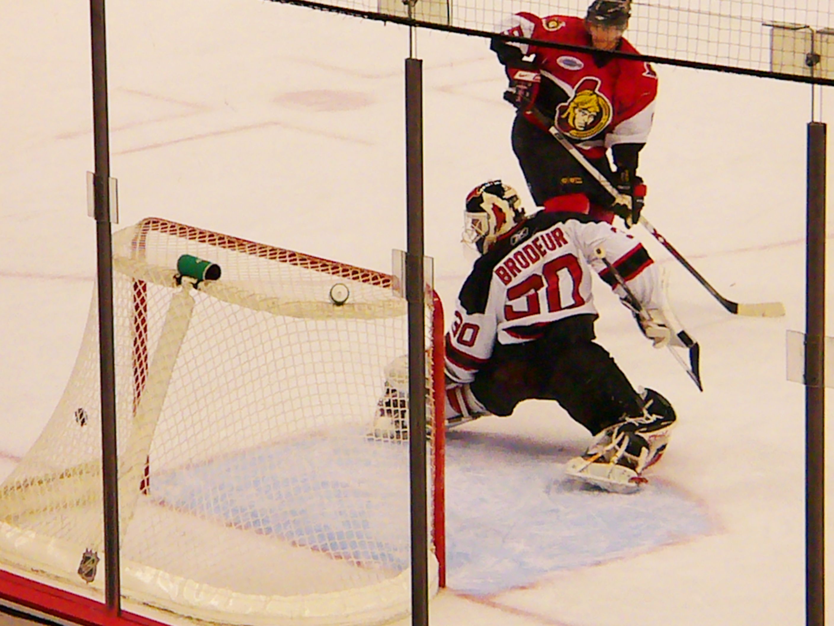 Puck slips Martin Brodeur for a goal.